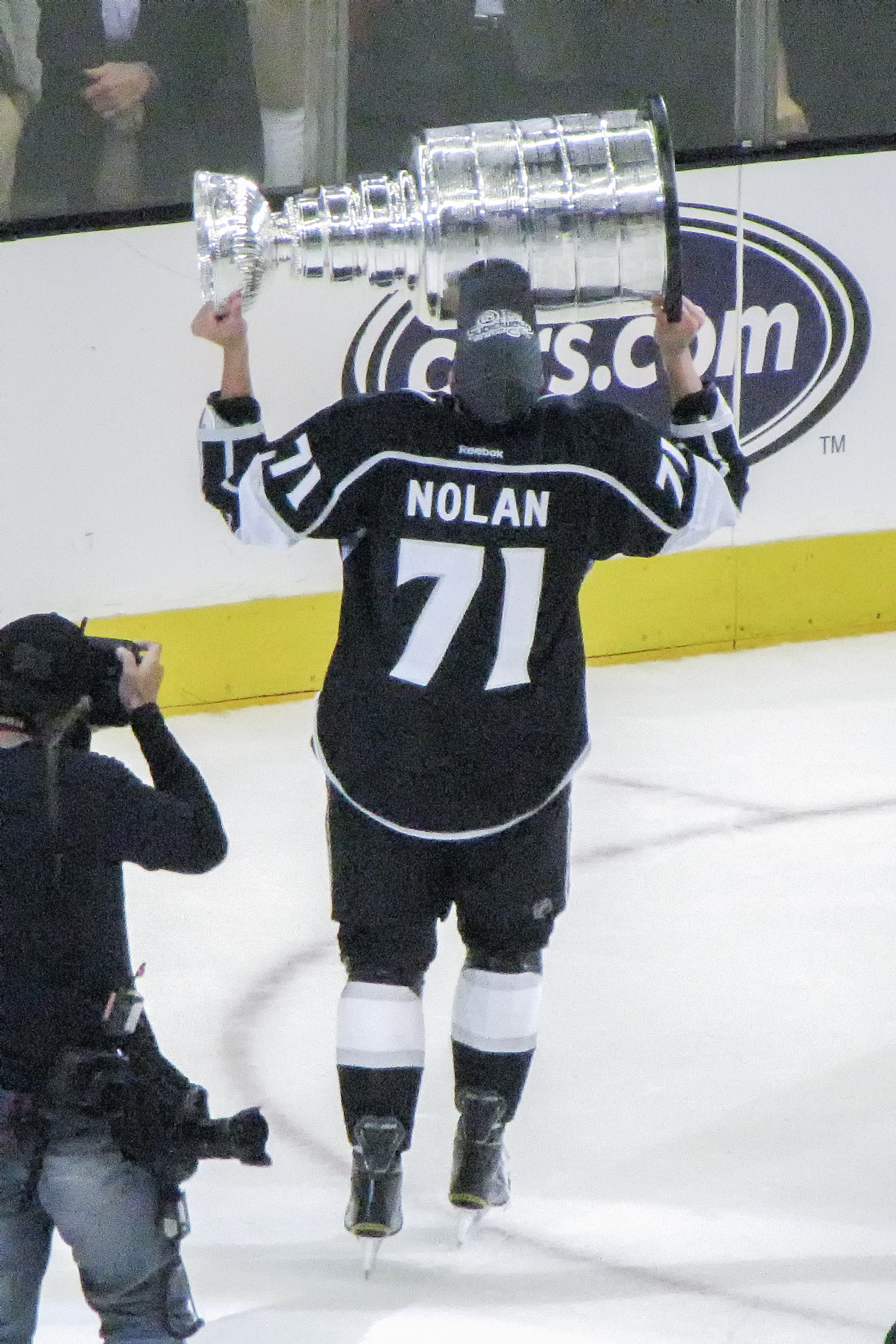 In April 2013 the Kings posted a nice video about receiving The Stanley Cup